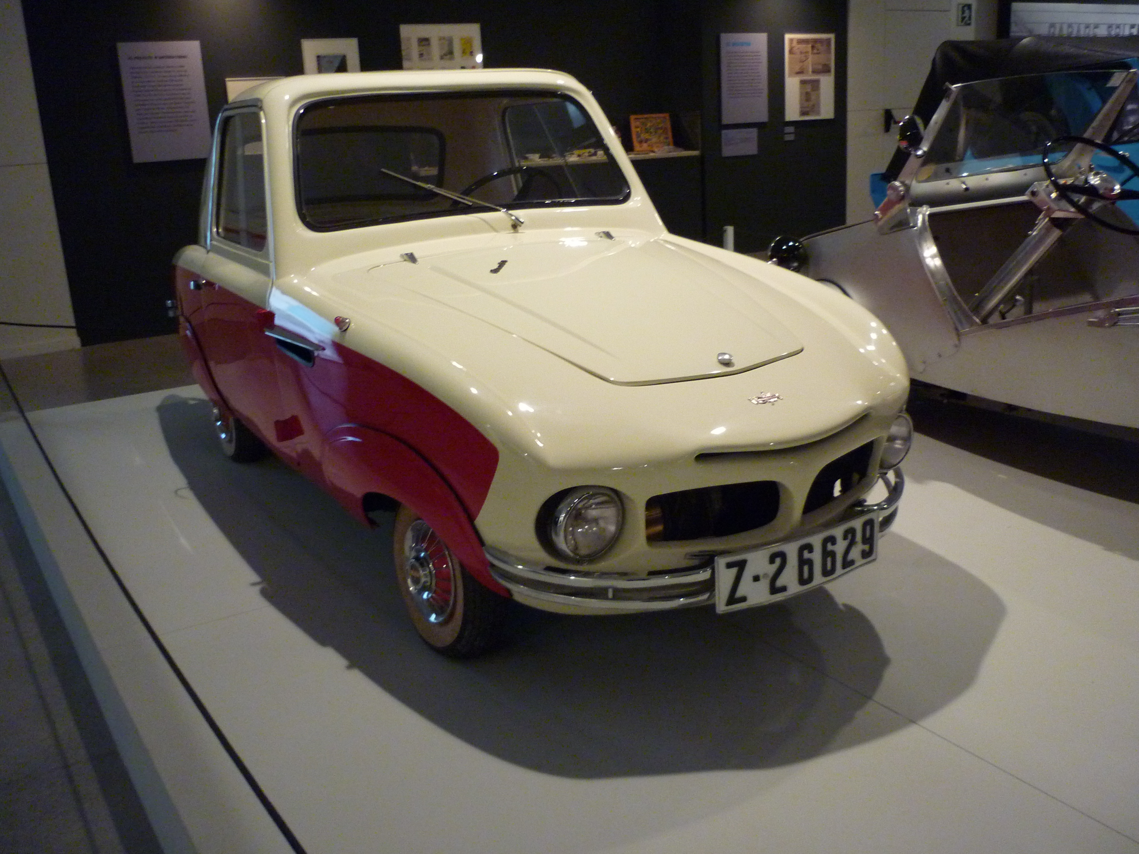 Biscúter Coupé 200-F Sport "Pegasín" (1958), microcar made in Catalonia